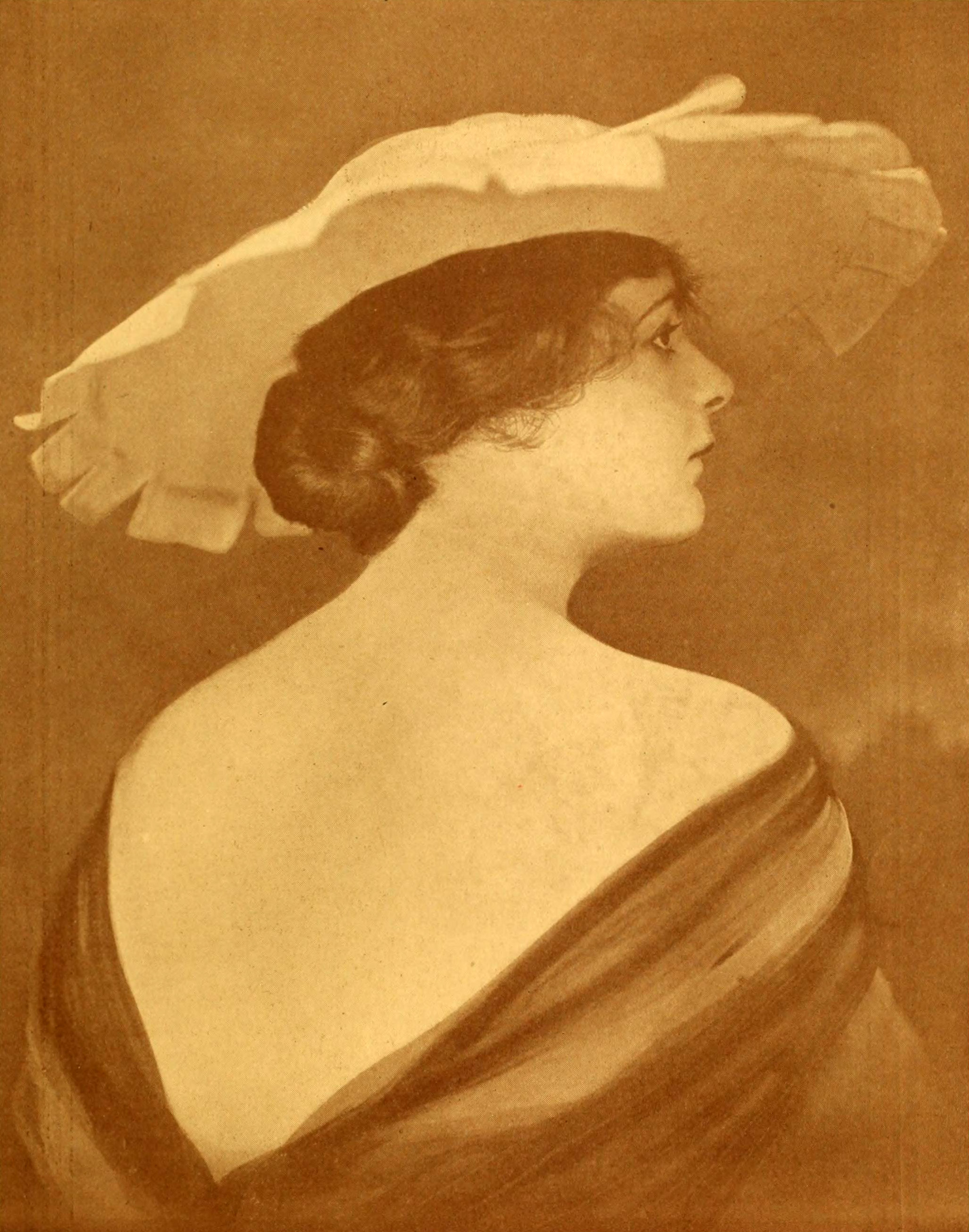 Advertisement in The Moving Picture World